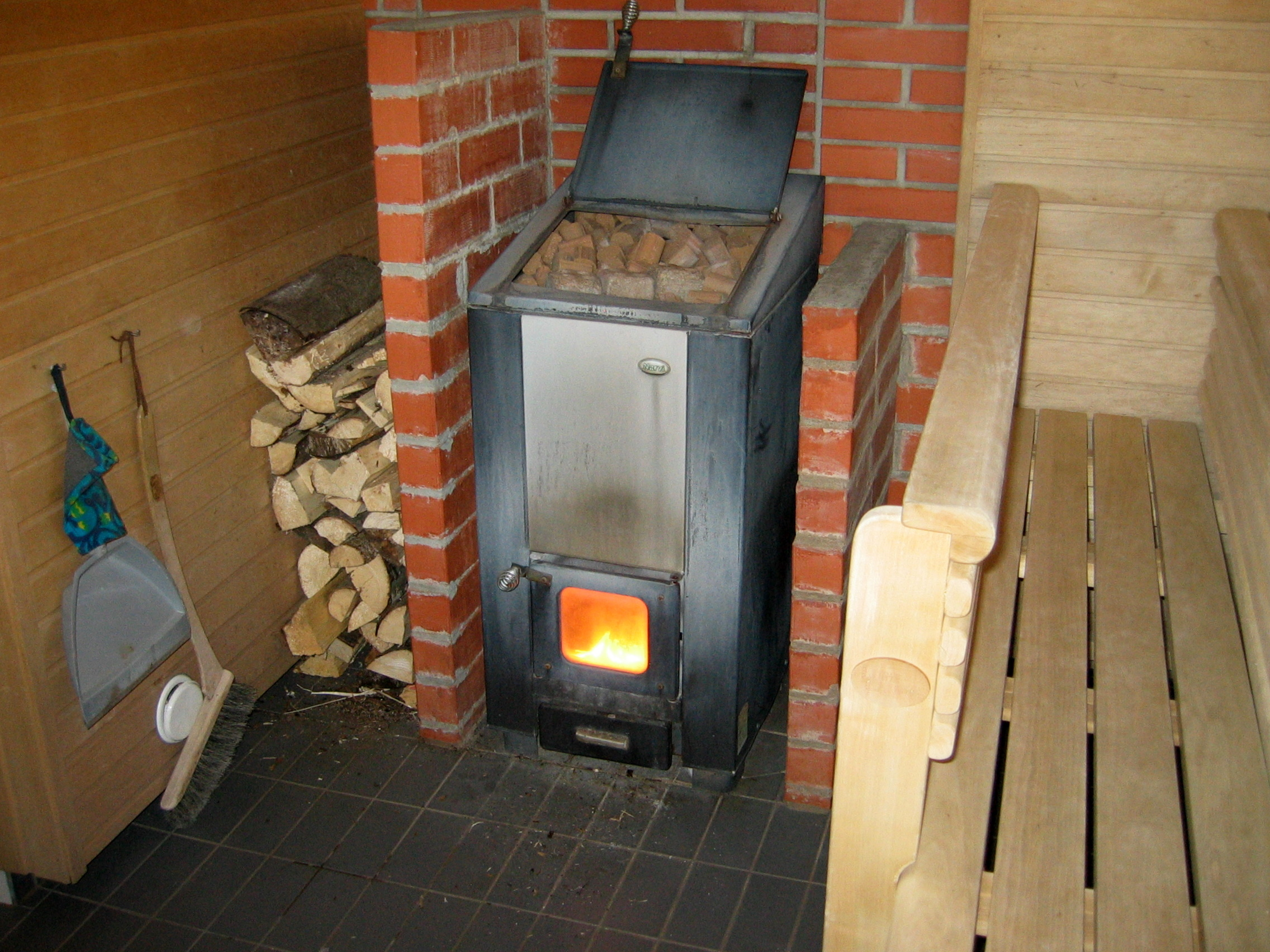 A wood-heated sauna stove, manufactured by Narvi, Finland.